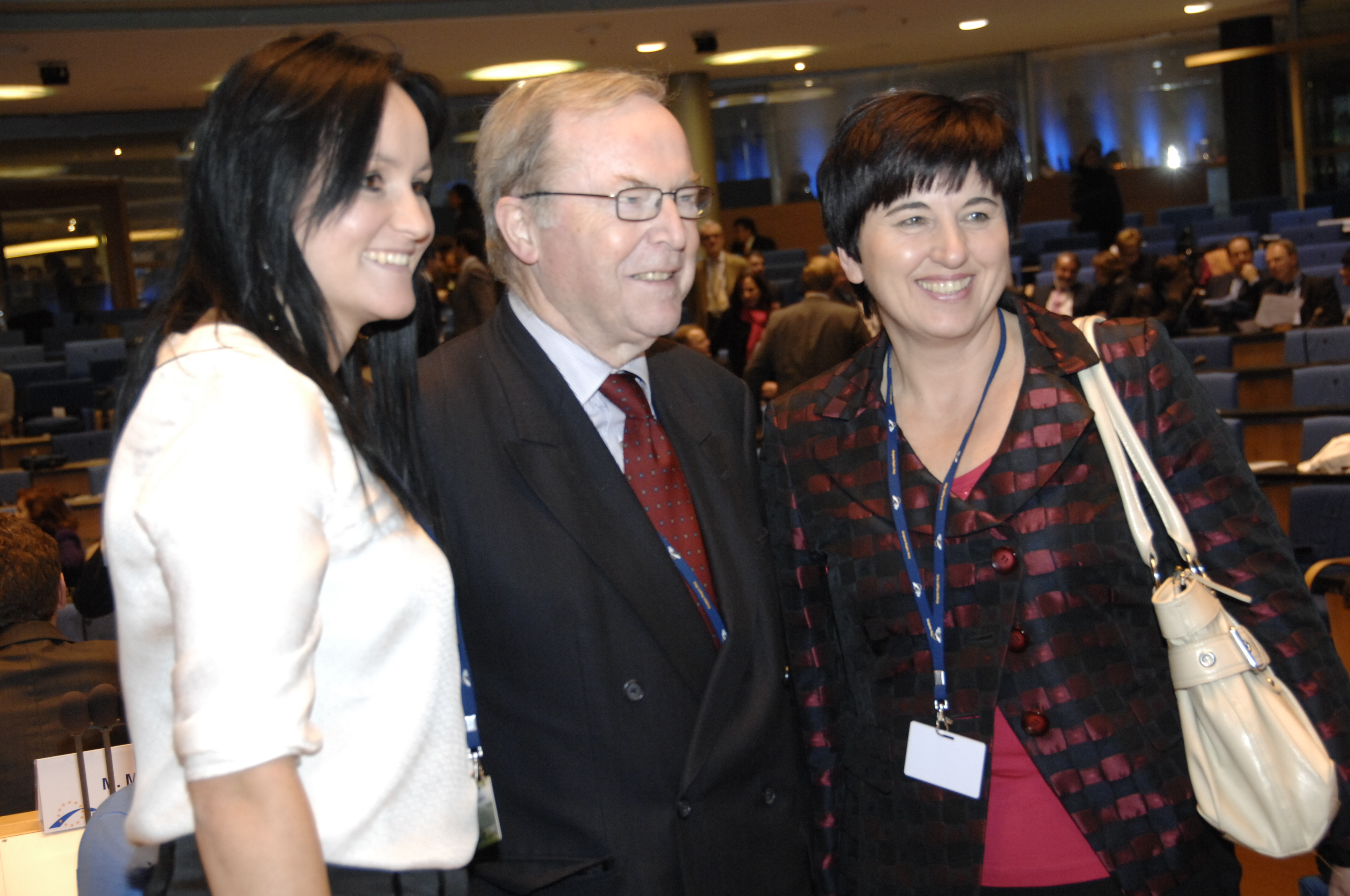 EPP Congress Bonn